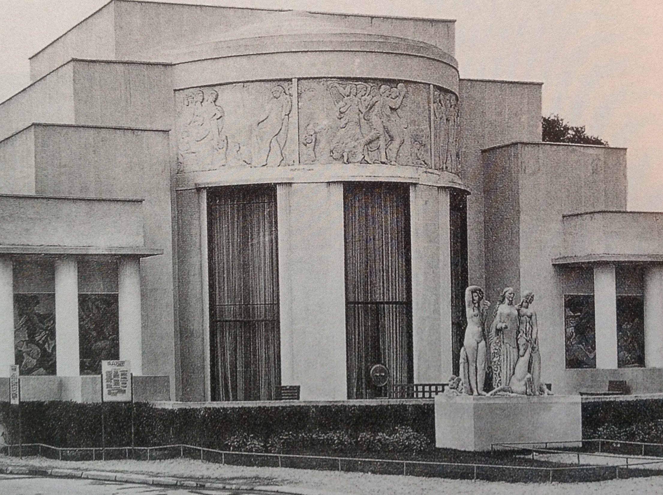 The Hotel du Collectionneur at the Exposition des Arts Decoratifs et Industriels Modernes in Paris, 1925